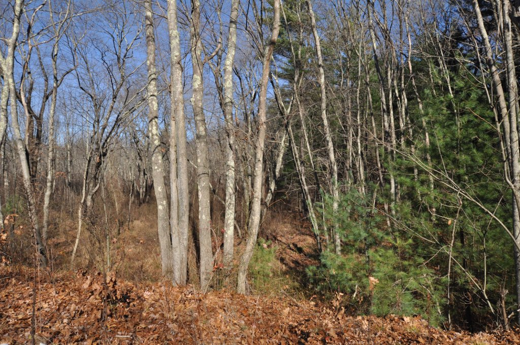 Woods in the vicinity of the Three Dog Site, North Smithfield, Rhode Island.